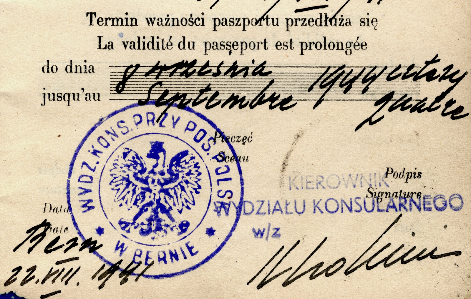 Fragment of the passport page from 1941 with the seal of the consular office of the Polish Legation in Bern from the Archive of the Embassy of the Republic of Poland in Bern